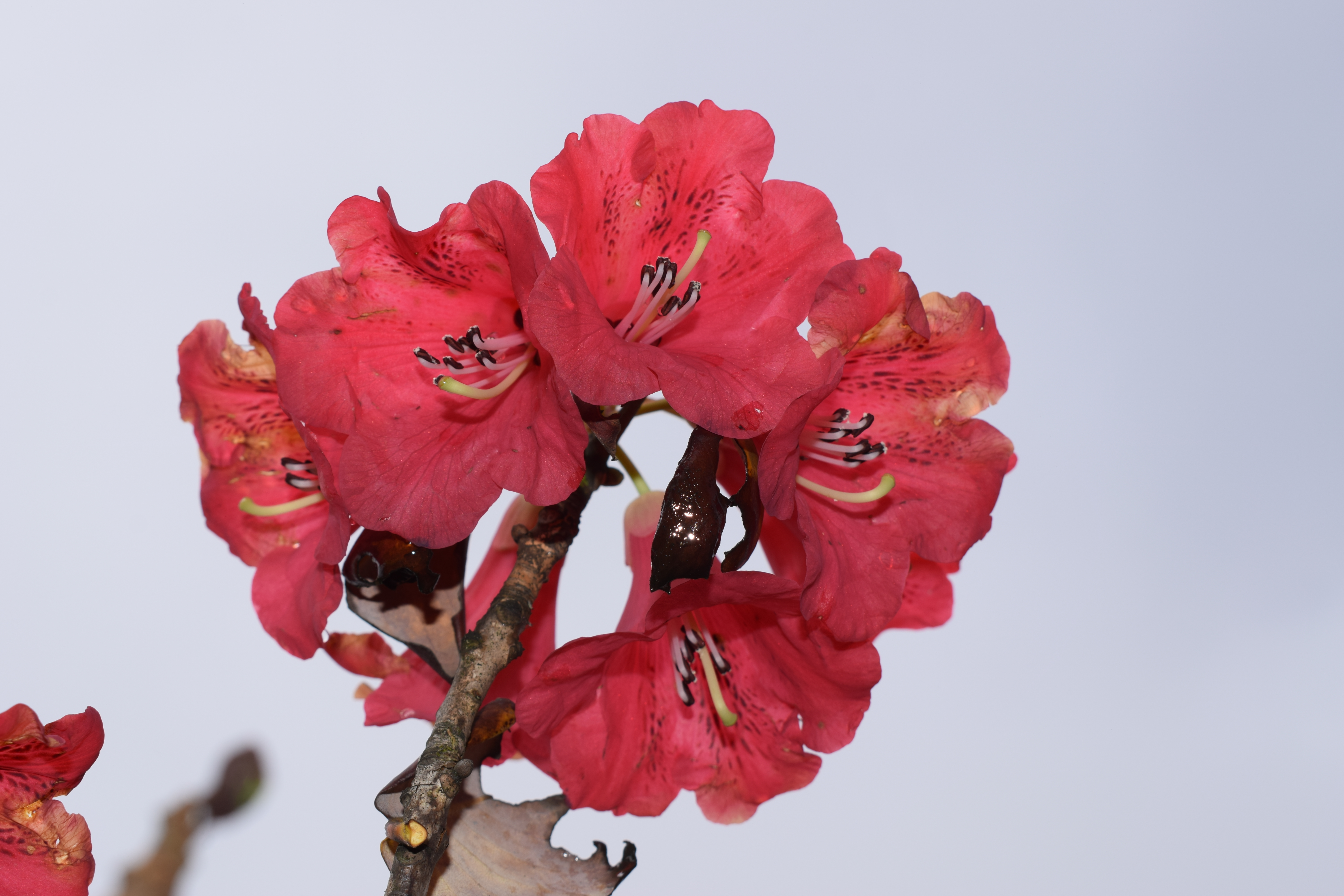 Rhododendron Flower from Yumthang Valley in North Sikkim, India